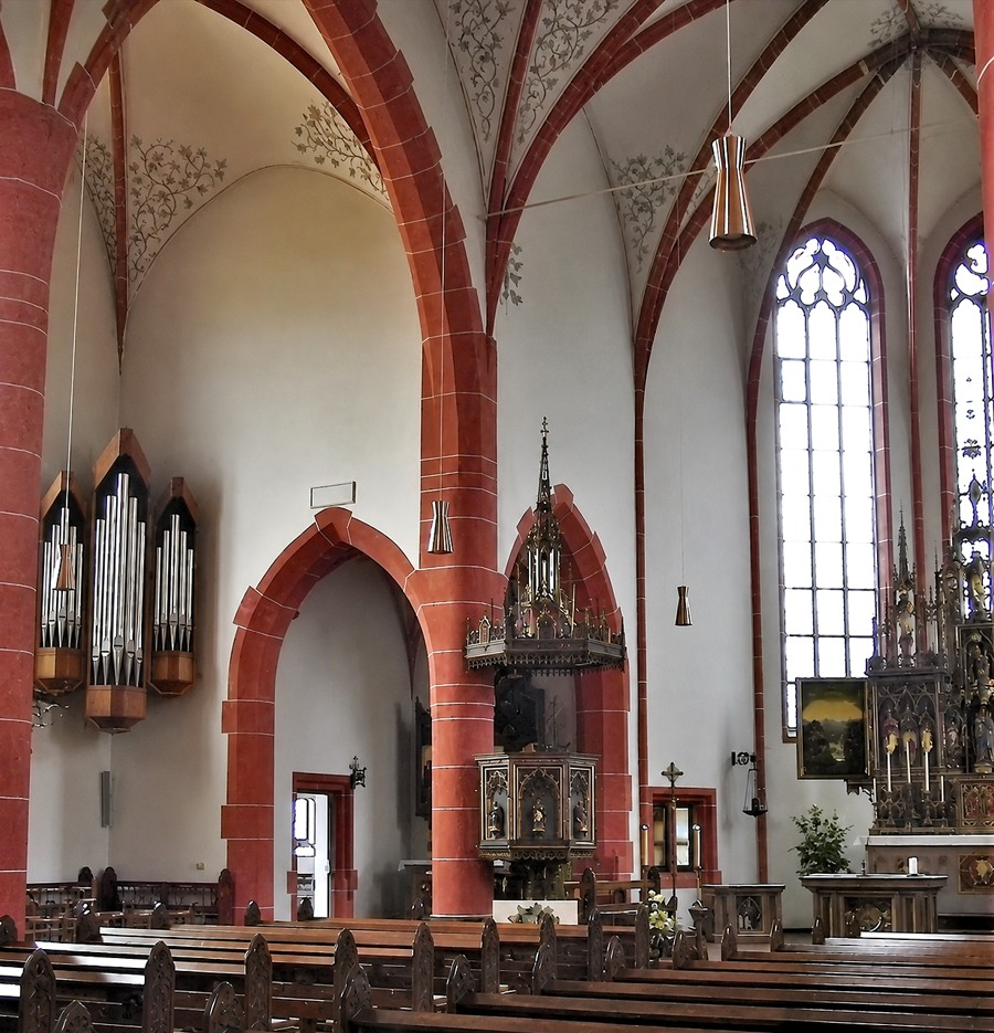 Church of Nonnweiler (Saarland)